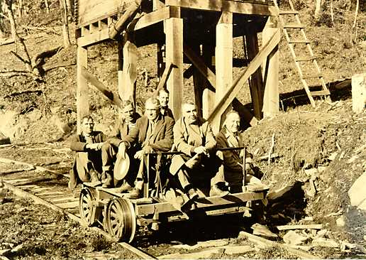 NPS Preliminary Survey Personnel, seated on a hand driven railcar. November 20, 1931. (This image was taken during a photo documentary survey of the Great Smoky Mountains).